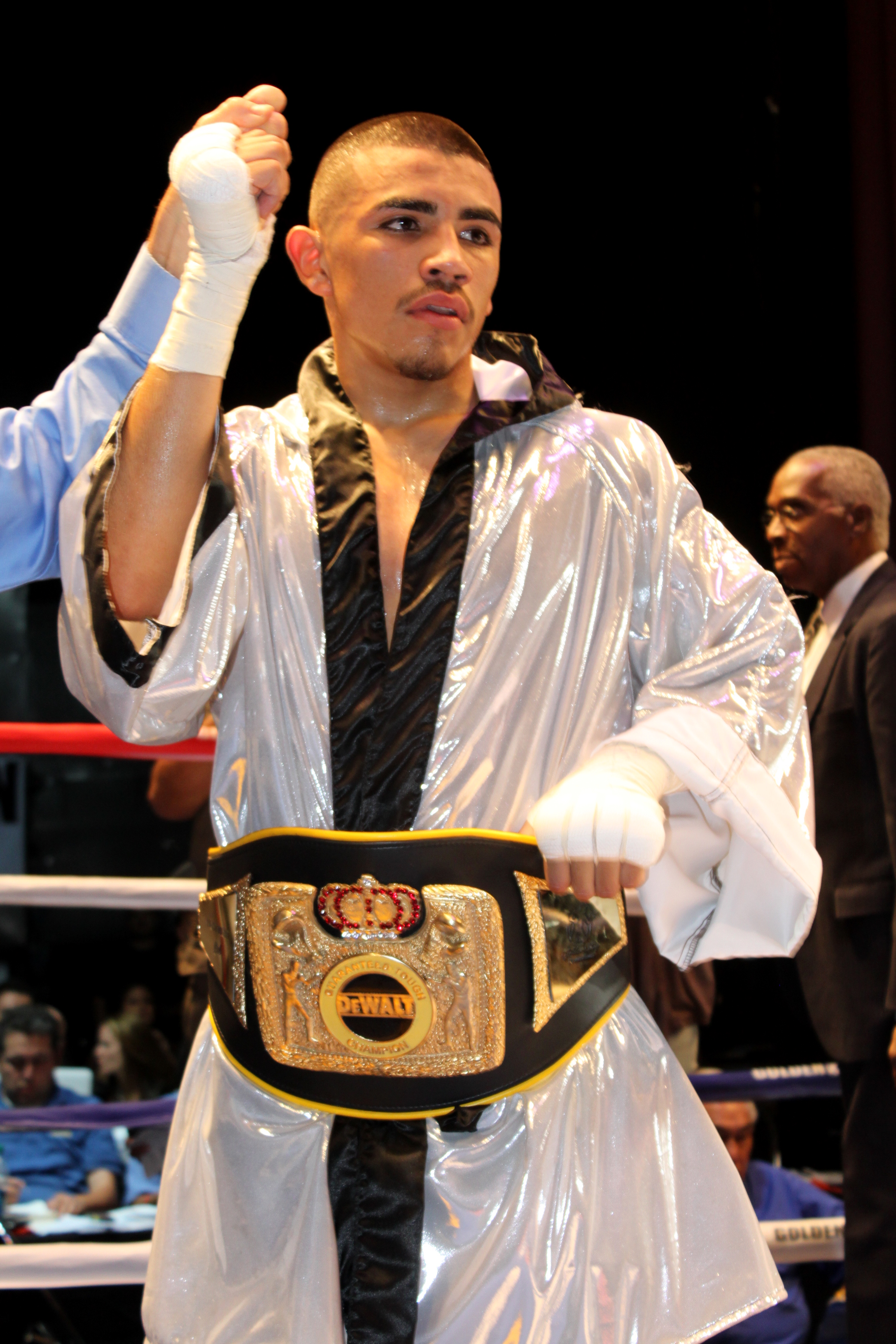 Frankie Gómez at Fight Night Club event at the Club Nokia in Los Angeles, California, United States.